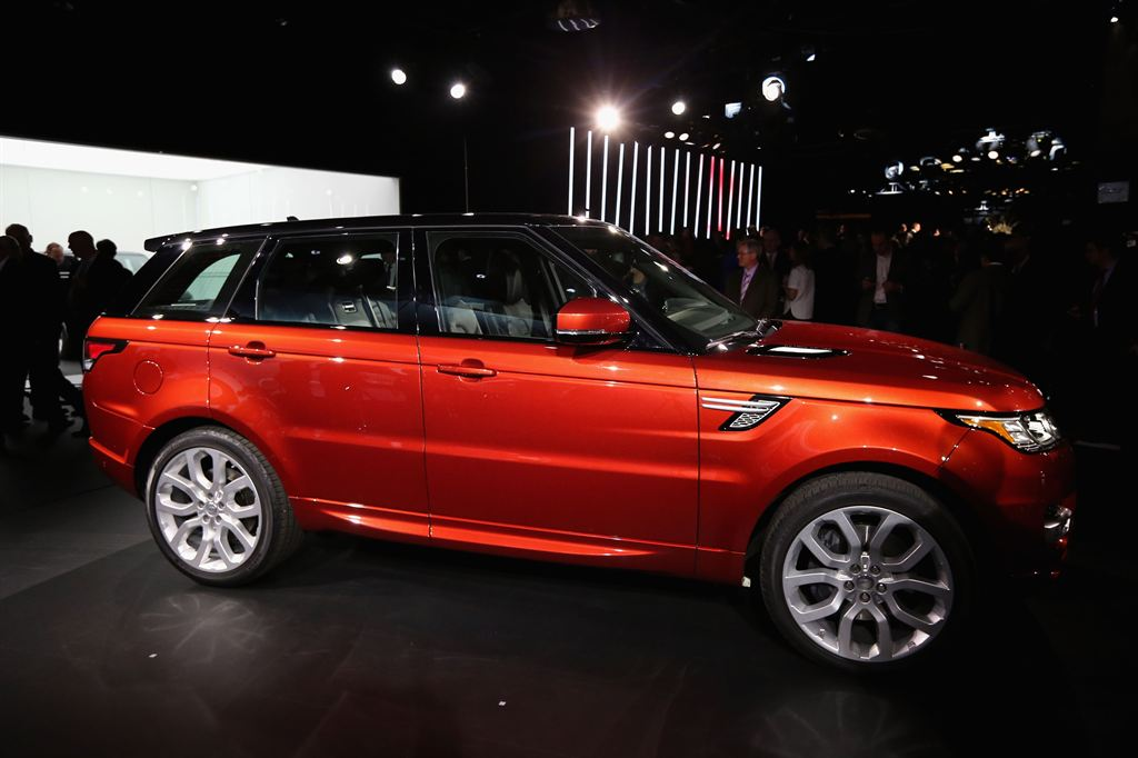 The all-new Range Rover Sport, revealed to the world today on the streets of New York, is the ultimate premium sports SUV - the fastest, most agile and responsive Land Rover ever.